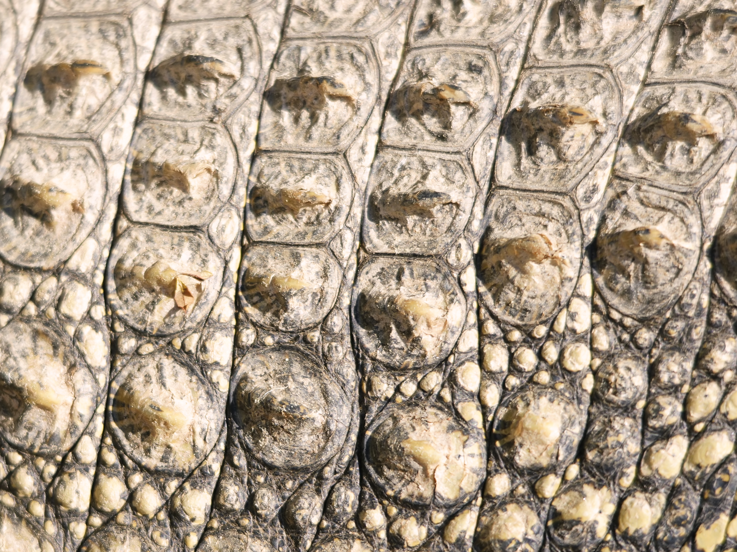 Skin of a juvenile Nile crocodile near Chilanga, Zambia.